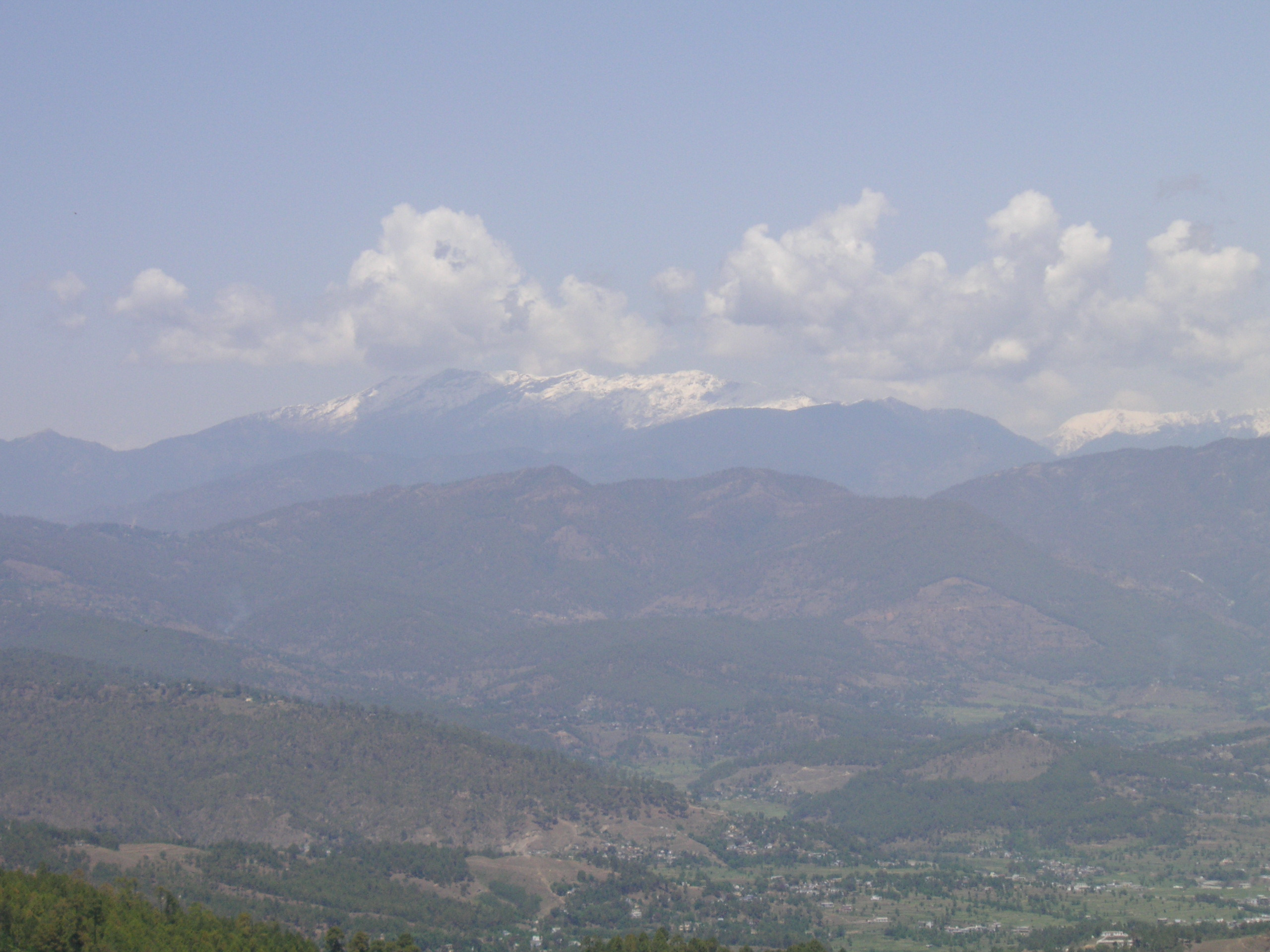 The view of the snow clad mountains from Mukteshwar,Uttarakhand.